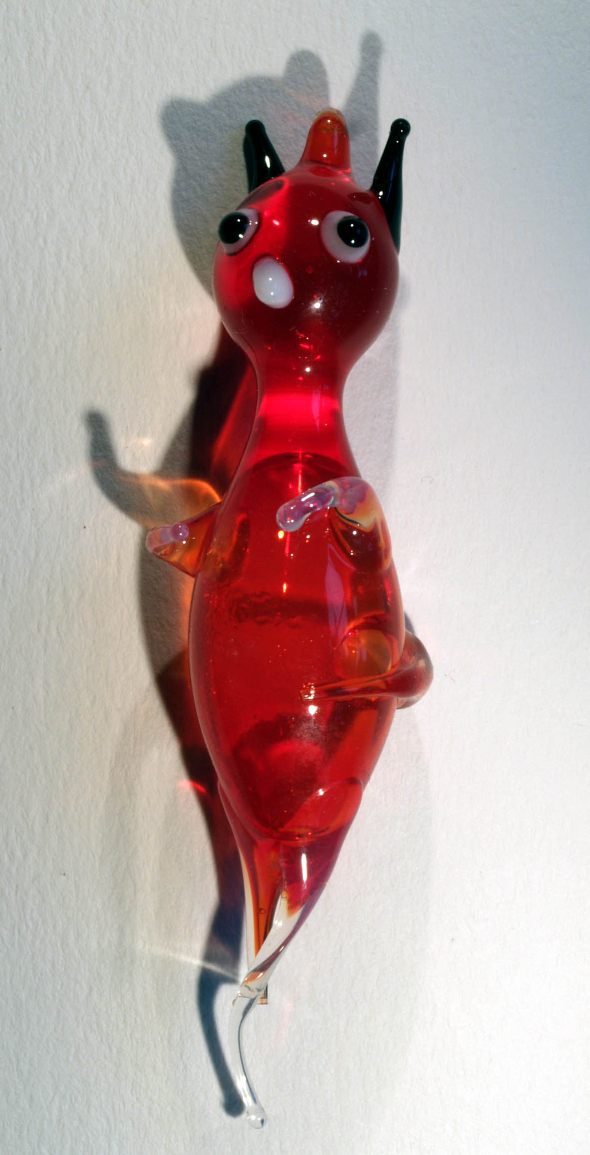 Cartesian devil (or diver) from Lauscha, Thuringian Forest, Germany